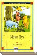 Winnie-the-Pooh Bulgarian Edition Book Cover